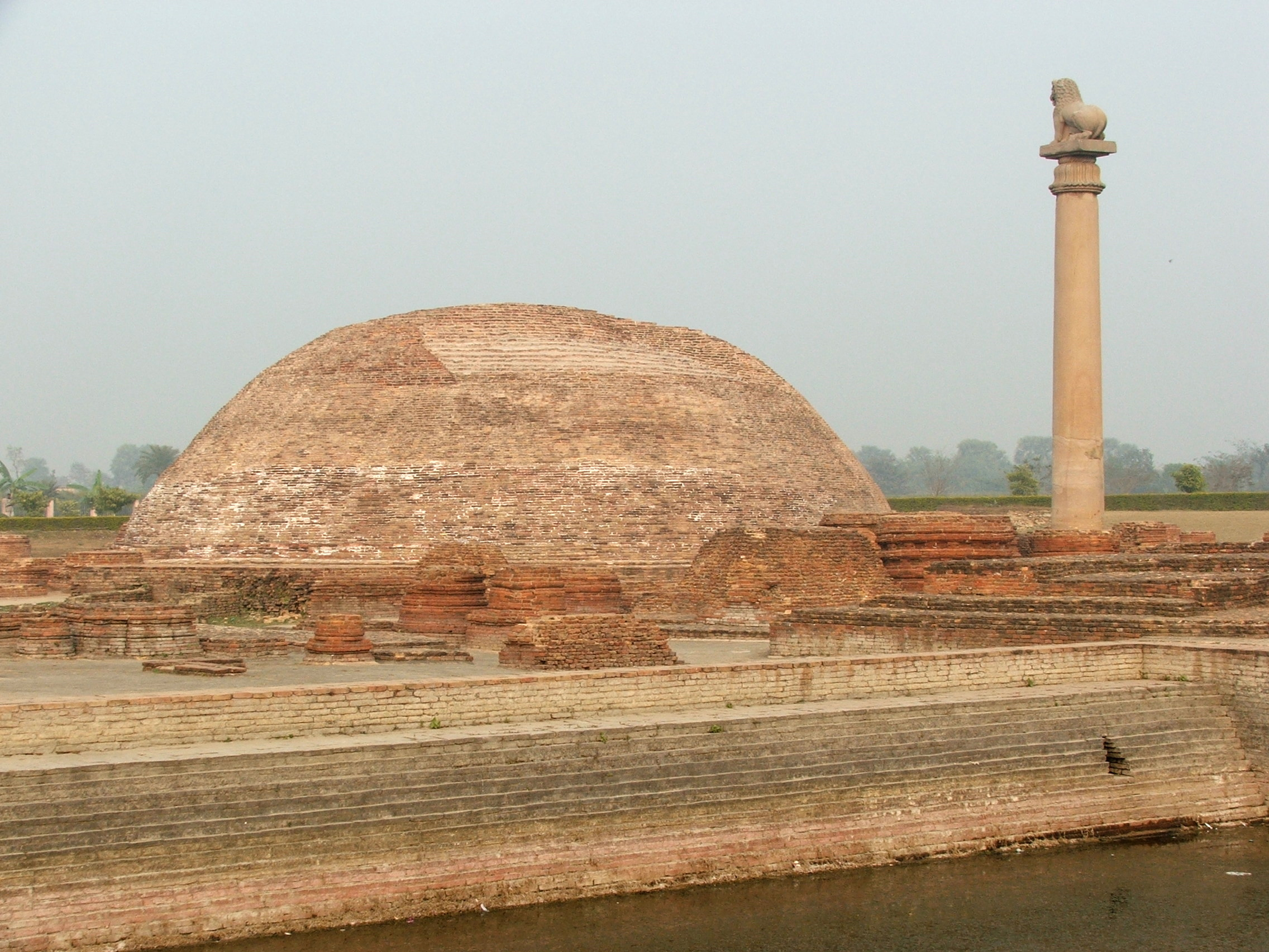 Stupa with relics of Ananda (Buddha's attendant monk and cousin), with Asokan pillar, at Vaishali, Bihar, India.